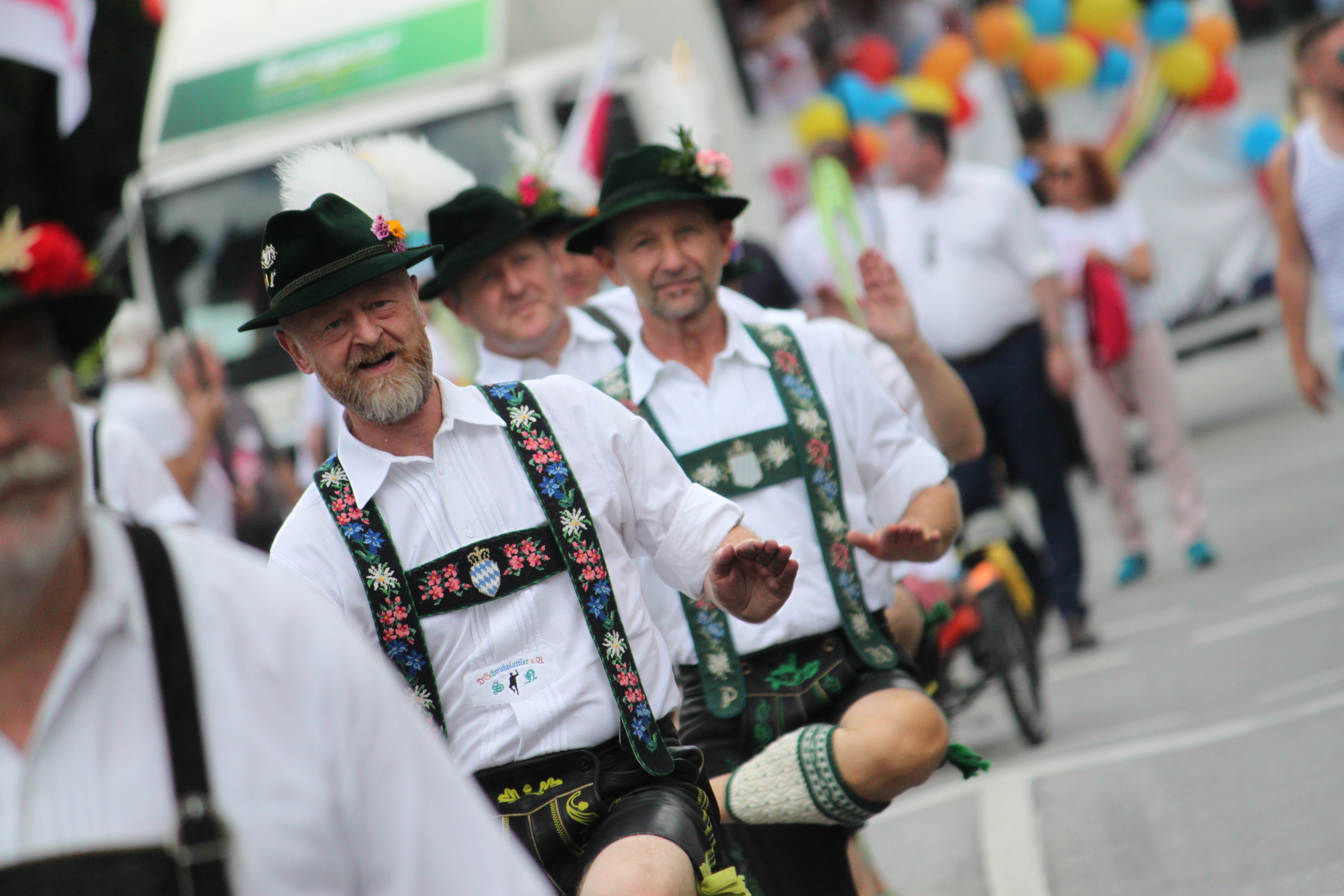 The Schwuhplattler, a german LGBT group, at CSD Munich 2018.